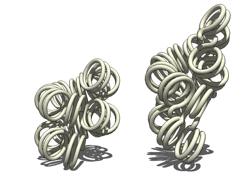 Two proposed structures of the 30nm chromatin filament. Left: 1 start helix "solenoid" structure. Right: 2 start loose helix structure. Note: the nucleosomes are omitted in this diagram - only the DNA is shown.